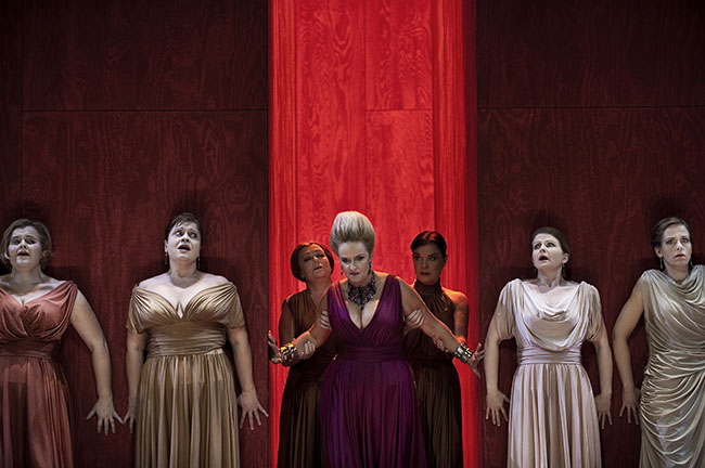 Marianne Eklöf as Klytaemnestra in Elektra and the Royal Swedish Opera choir 2009